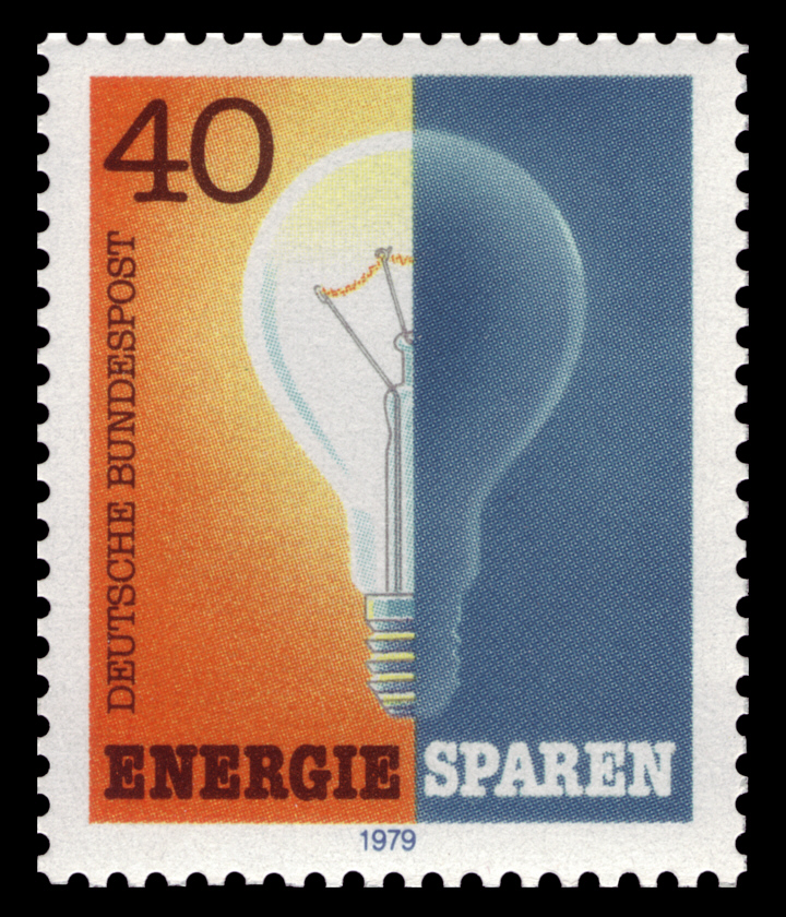 Save energy Graphic designer: Coordt von Mannstein Ausgabepreis: 40 Pfennig First Day of Issue / Erstausgabetag: 14. November 1979 Michel-Katalog-Nr: 1031